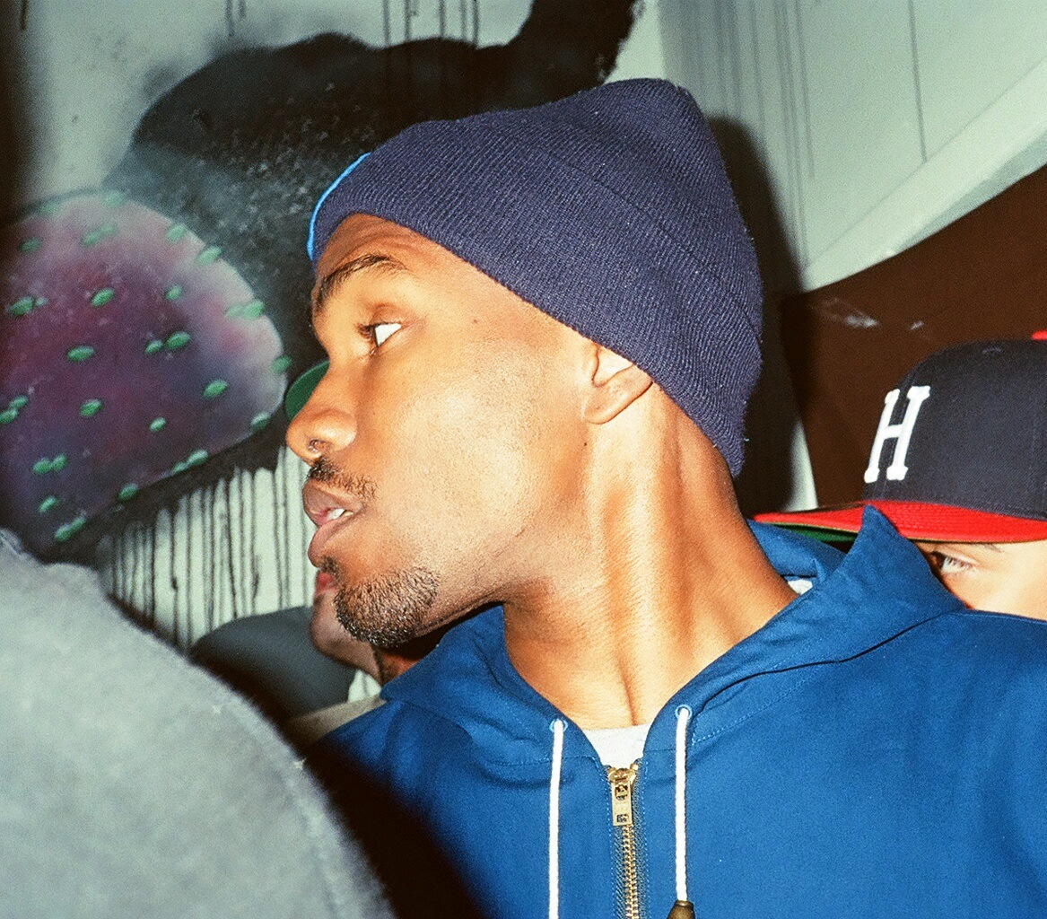 Frank Ocean at a listening event in Los Angeles on December 2, 2011.